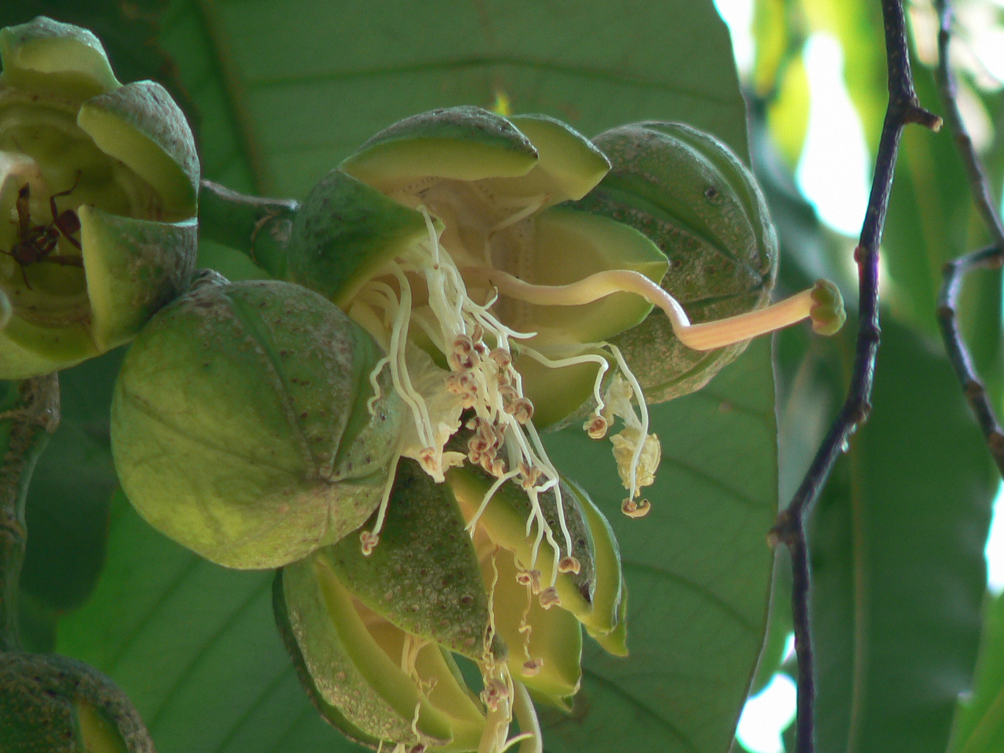 Lythraceae (Lythrum, or loosestrife family) » Duabanga grandiflora doo-uh-BAN-guh -- Latinized form of Hindu vernacular name gran-dih-FLOR-uh -- meaning, with large flowers commonly known as: duabanga • Assamese: khokan Native to: south east Asia References: eFlora • Wikipedia